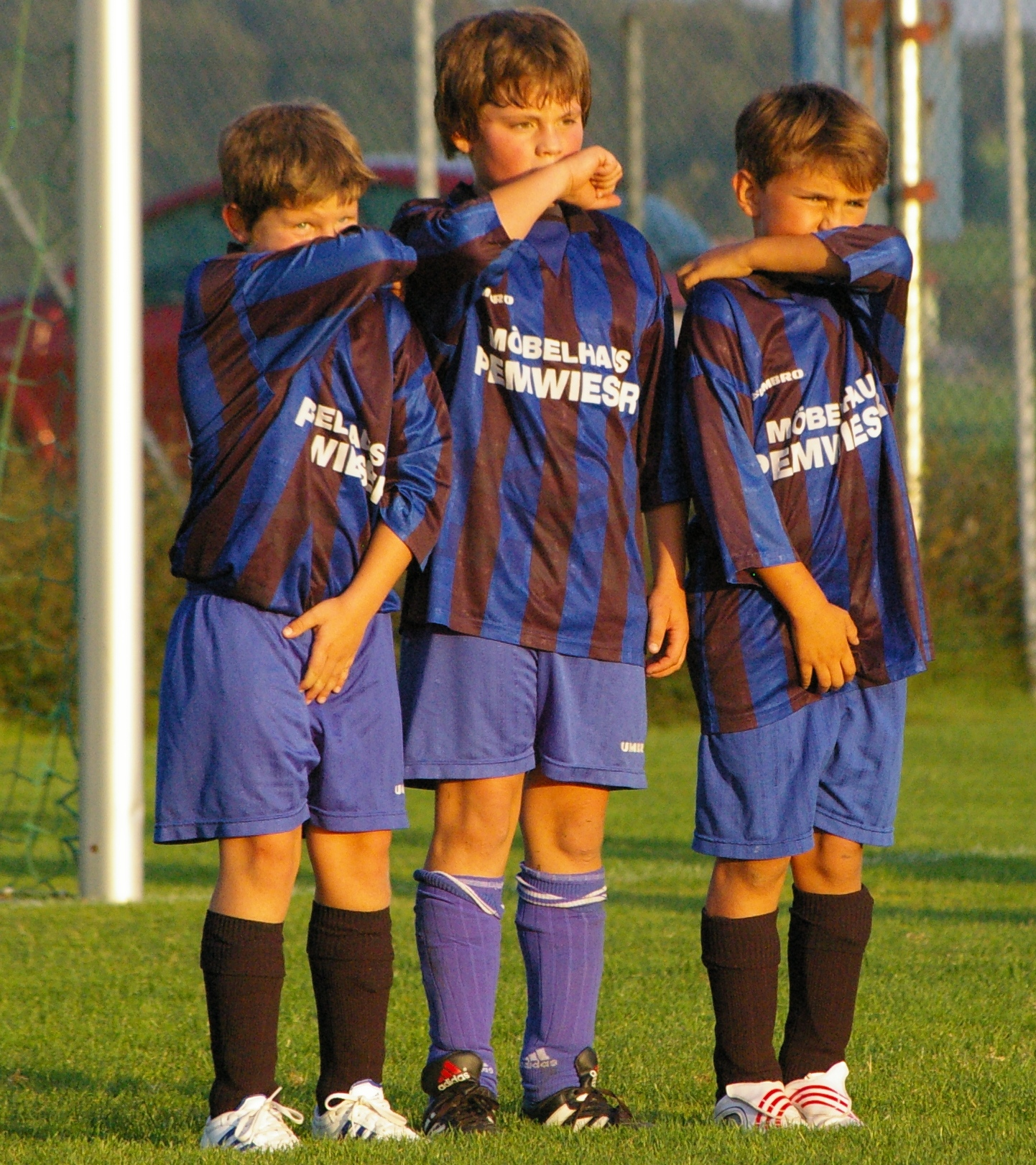 childrens soccer